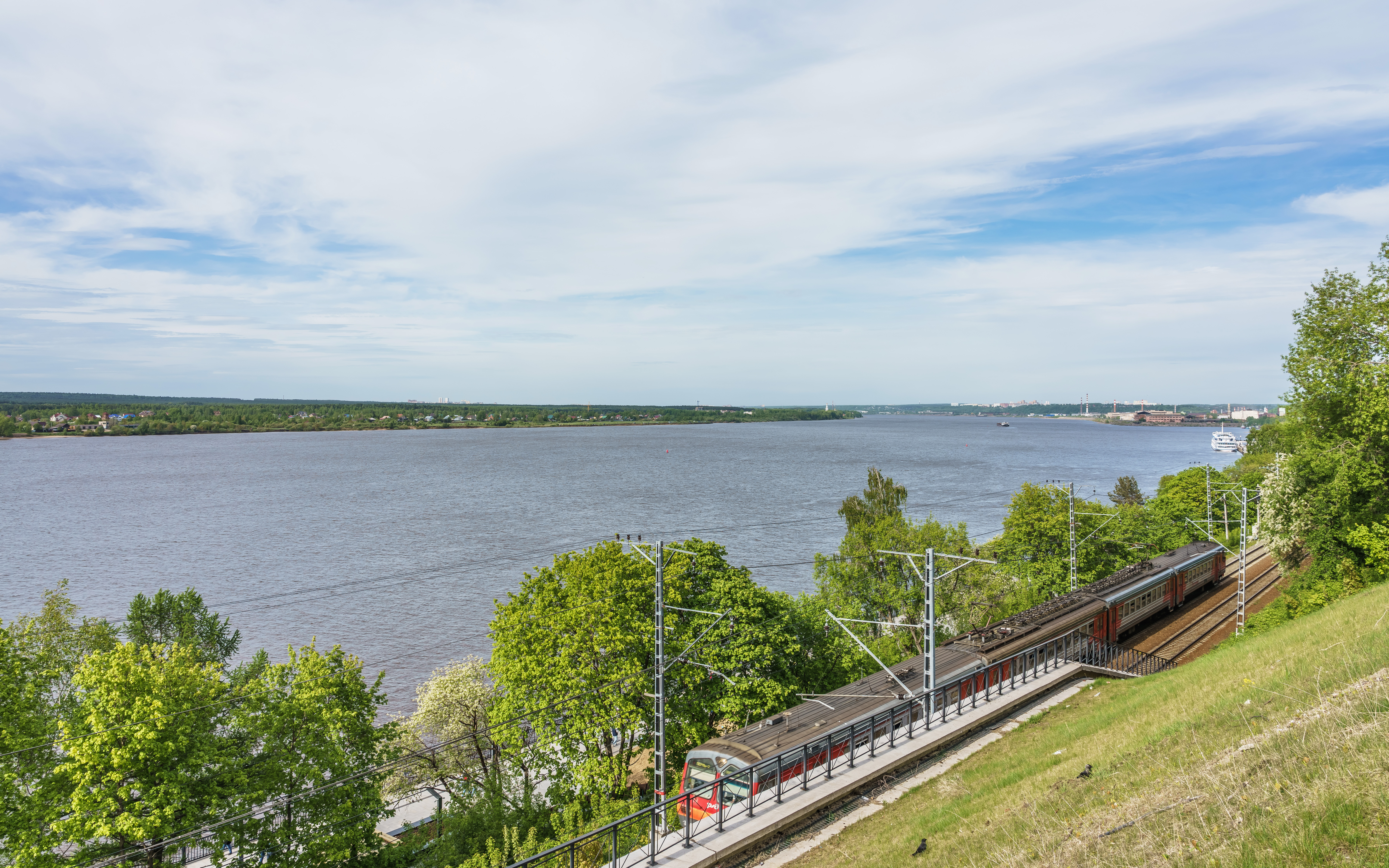 Kama River and suburban railway tracks in Perm, Russia